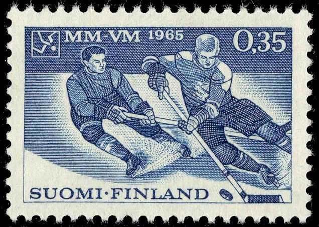 Icehockey championships in Tampere, 1965